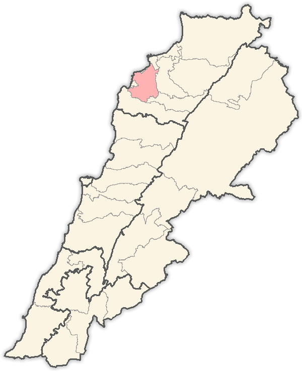 Map of districts in Lebanon, highlighting the Koura District